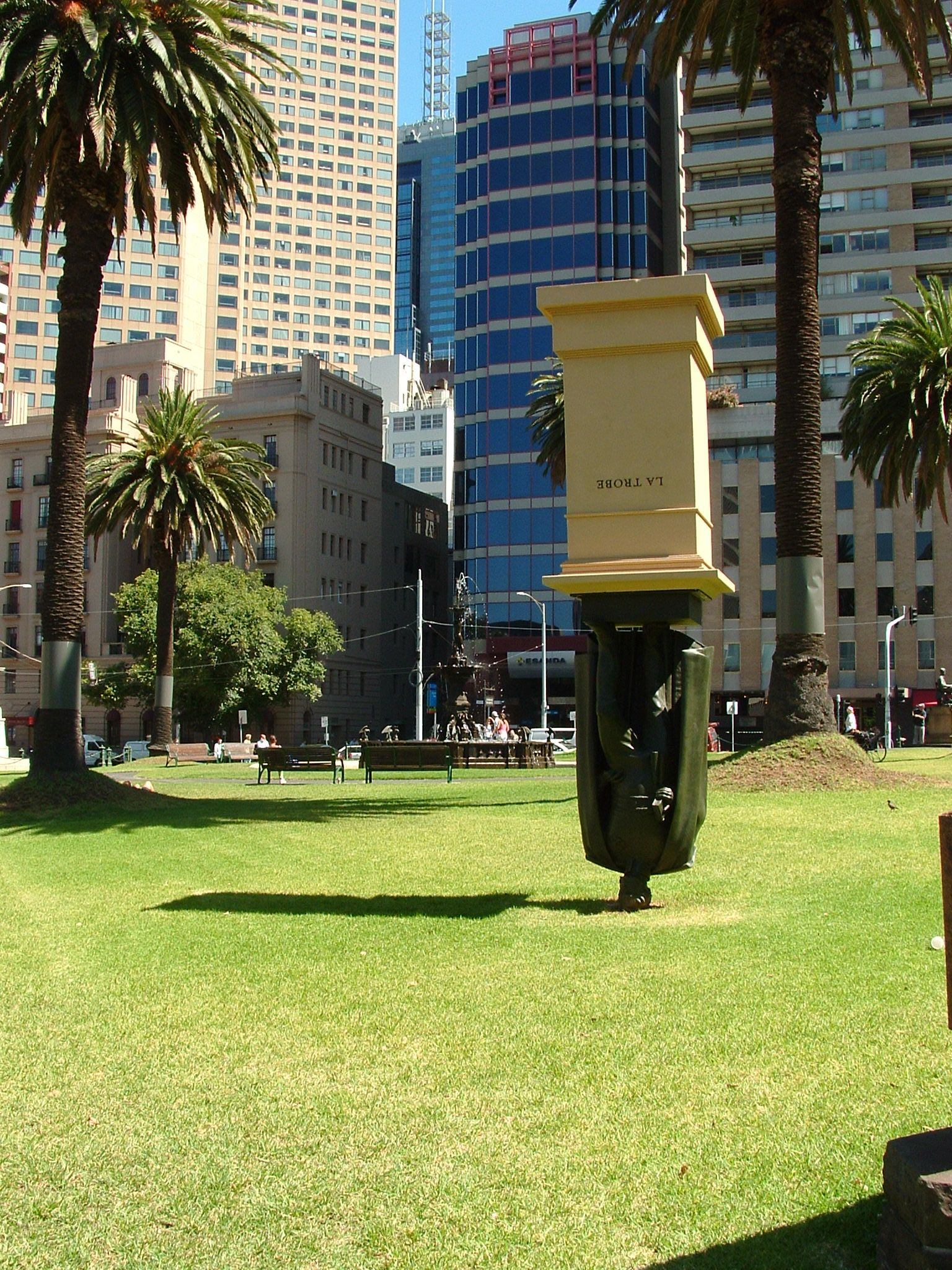 'Landmark' by Charles Robb, an inverted statue of Charles Joseph Latrobe in Gordon Reserve, Melbourne, Australia (now permanently installed at Latrobe University, Melbourne)